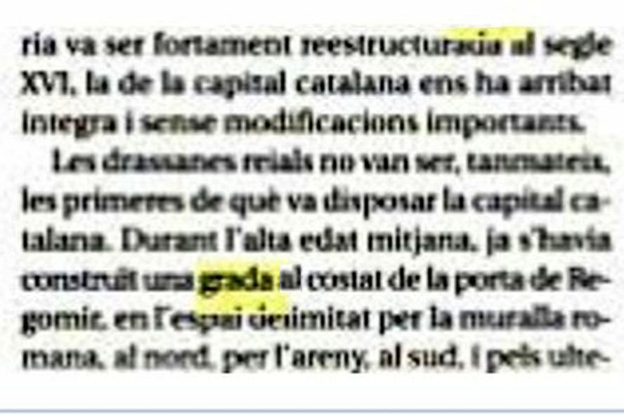 Reference of early catalan medieval shipyard